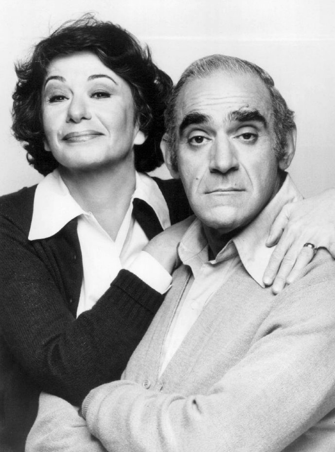 Photo of Florence Stanley and Abe Vigoda as Bernice and Phil Fish from Fish. The show was a spin-off of Barney Miller.